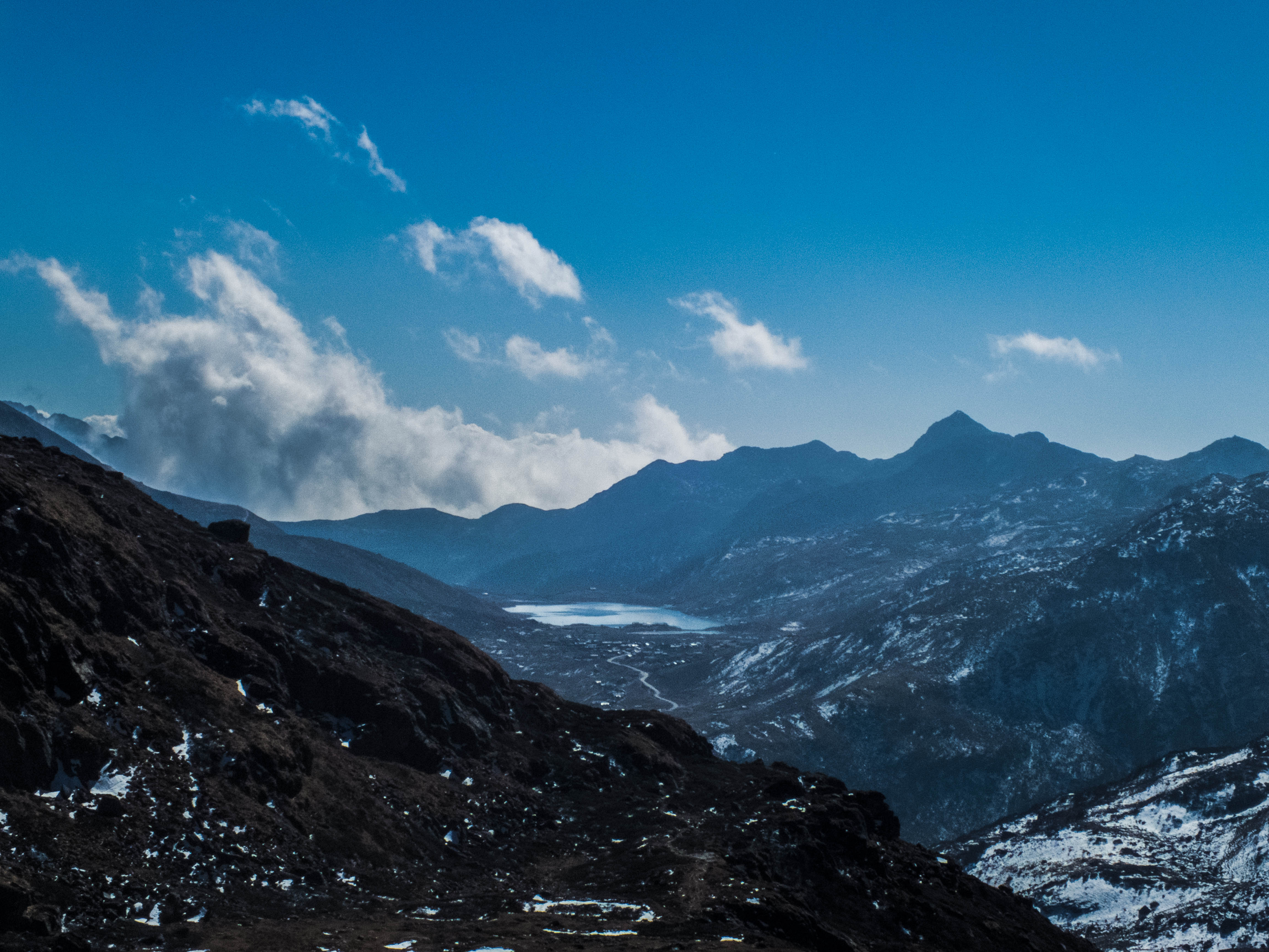 High Altitude Lake near Nathu La.